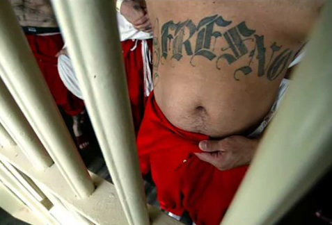 Fresno Bulldogs gang members in Fresno County Jail